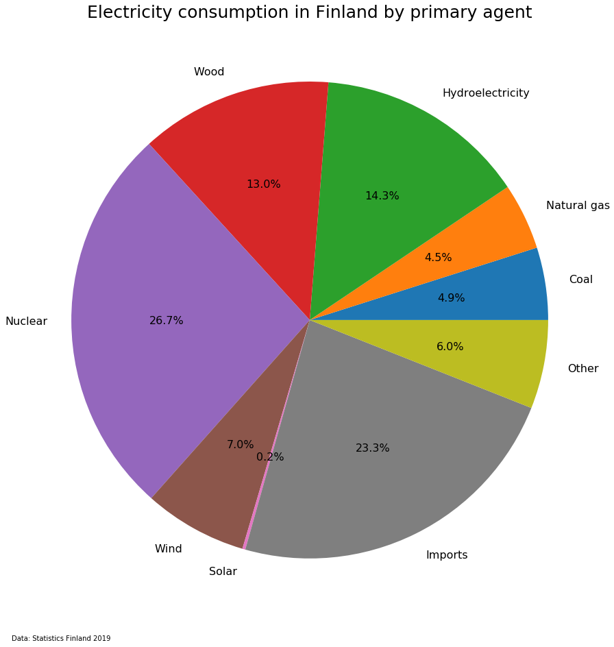 Finland electricity by agent in 2019